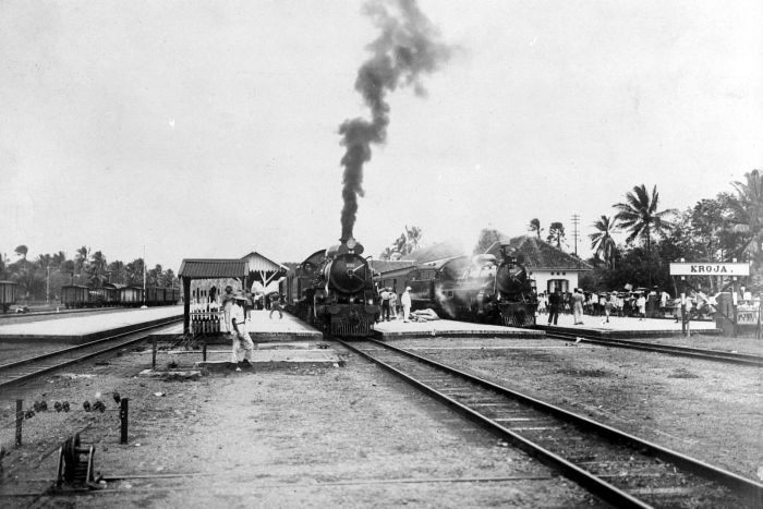 The first run on November 1st of the once daily expresse-train Batavia-Surabaja on the station of Kroja